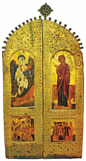 Royal doors from Ascension of Christ Church in Dobri Dol